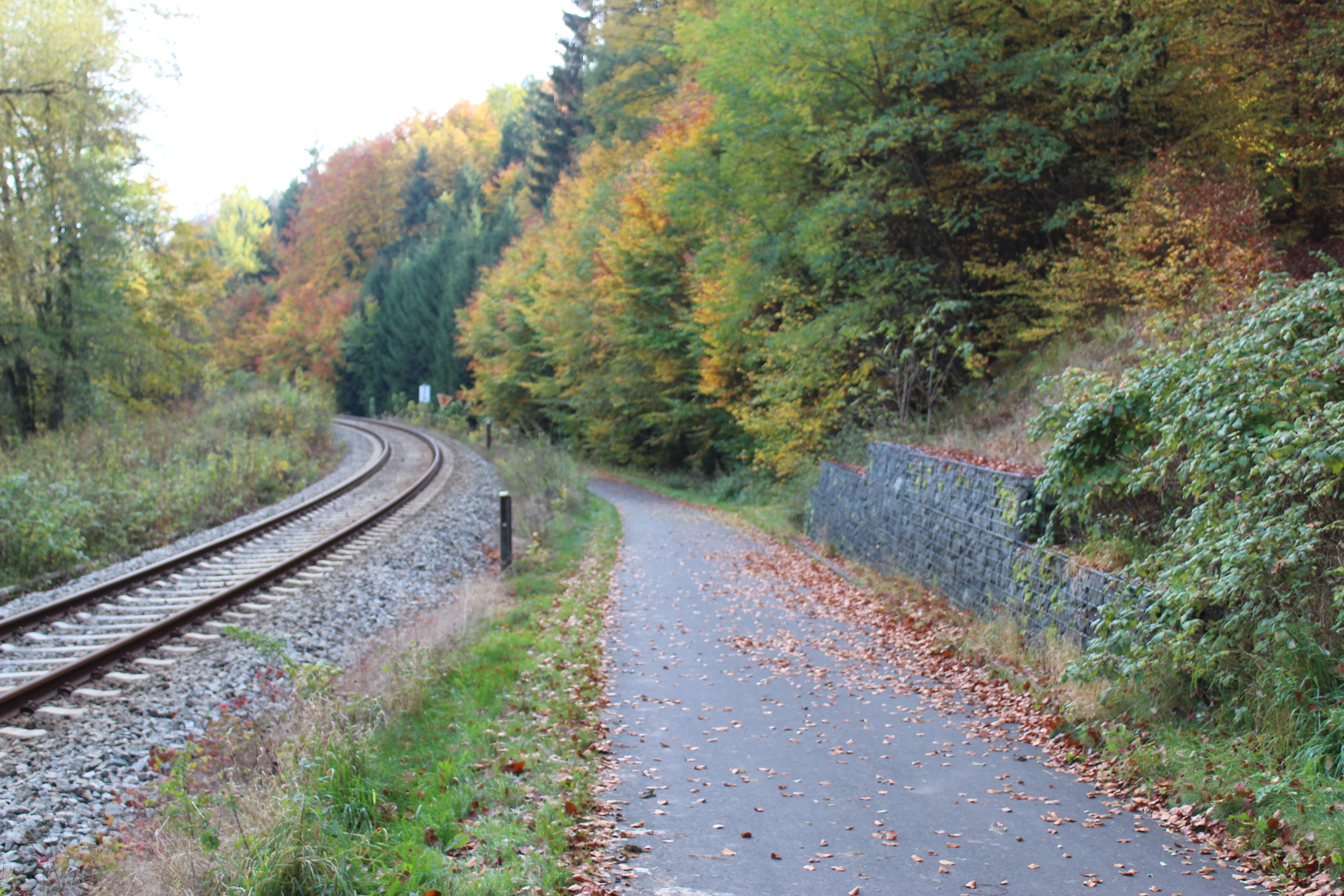 railway Orlabahn, north of Langenorla